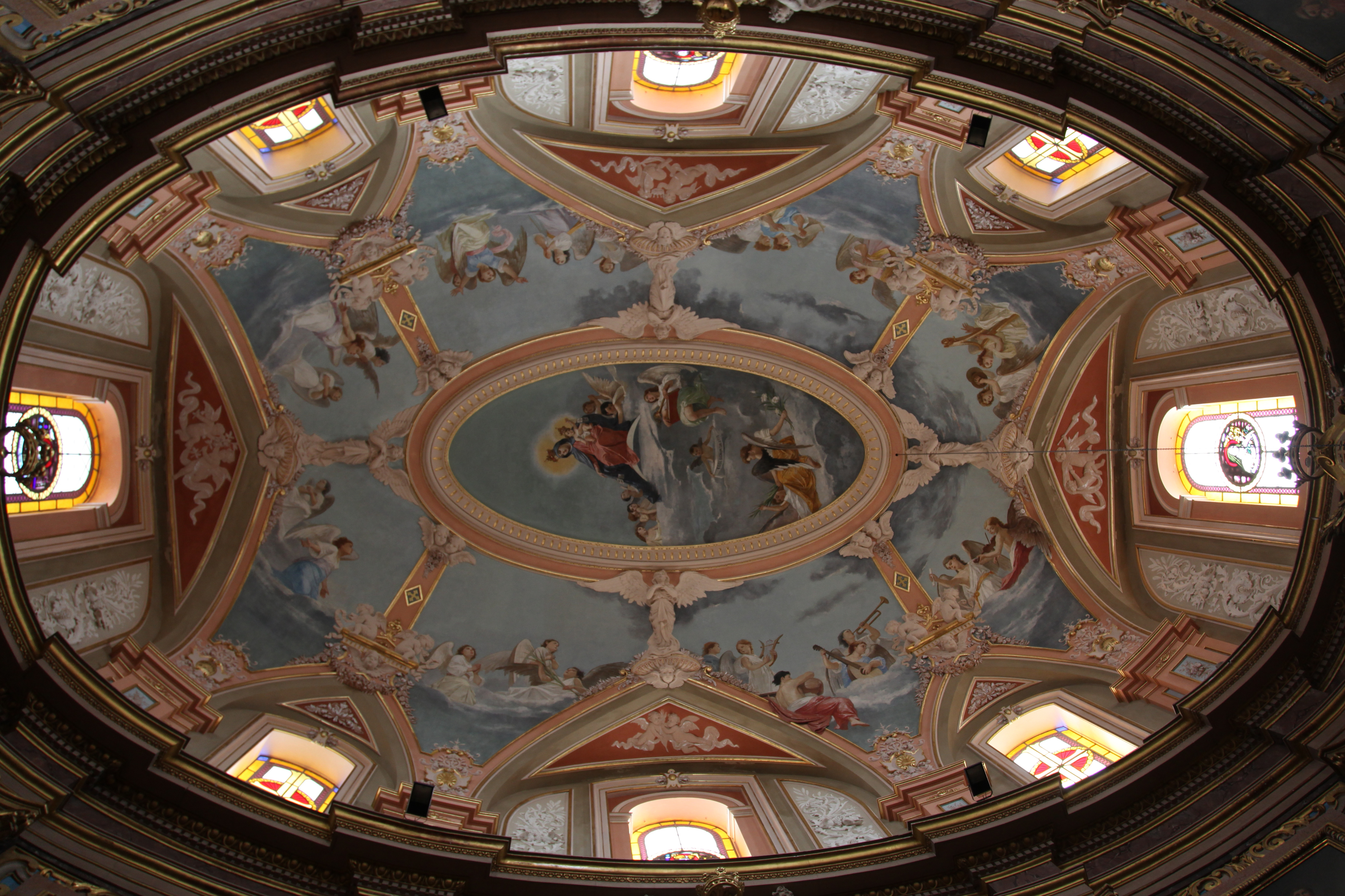 Carmelite Priory Church, Triq Villegaignon in Mdina, Malta